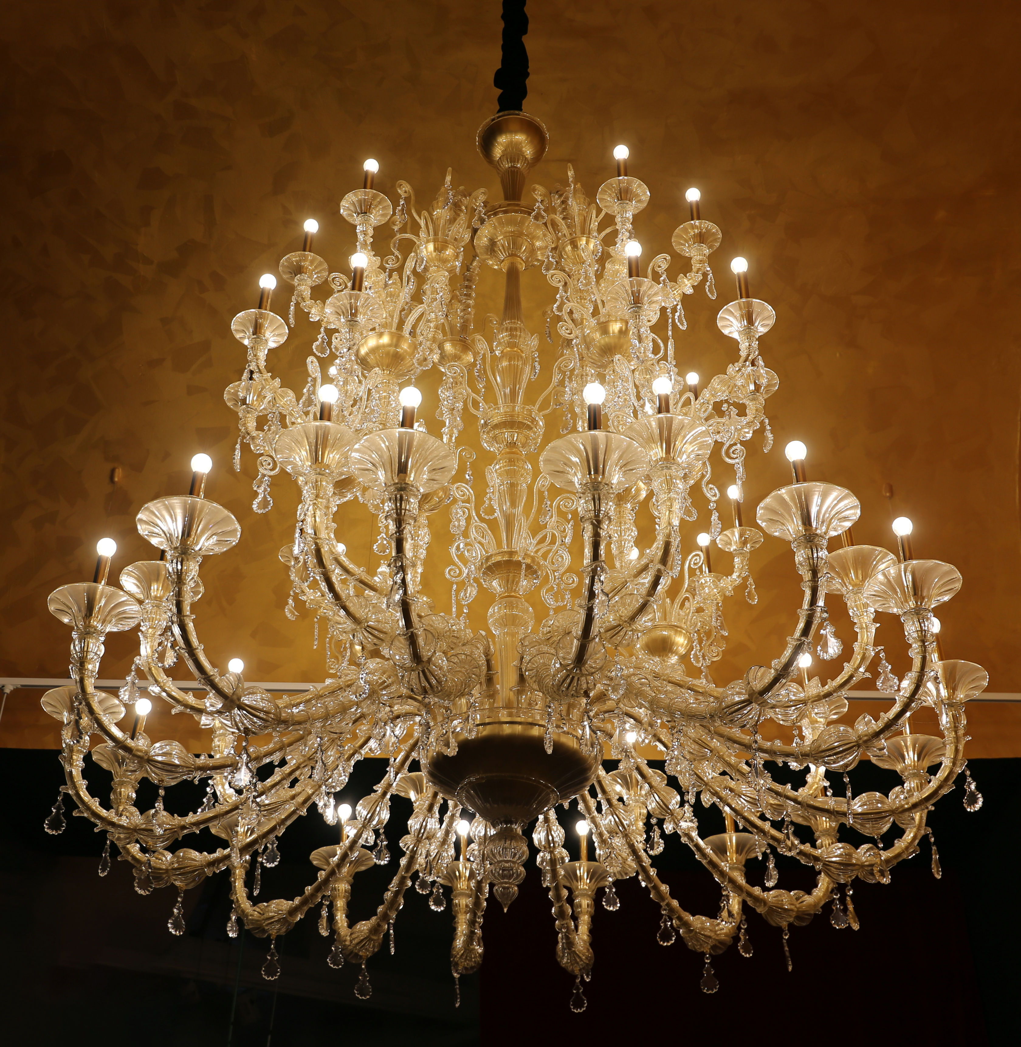 Venice Biennale pavillions